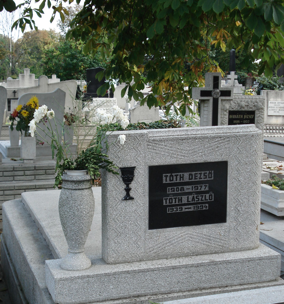 Tomb of Dezső Tóth, Mayor of Miskolc, Mindszent Cemetery, Hungay